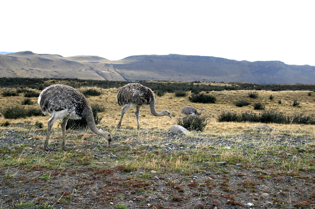 Darwin's Rhea in Patagonia, Chile.